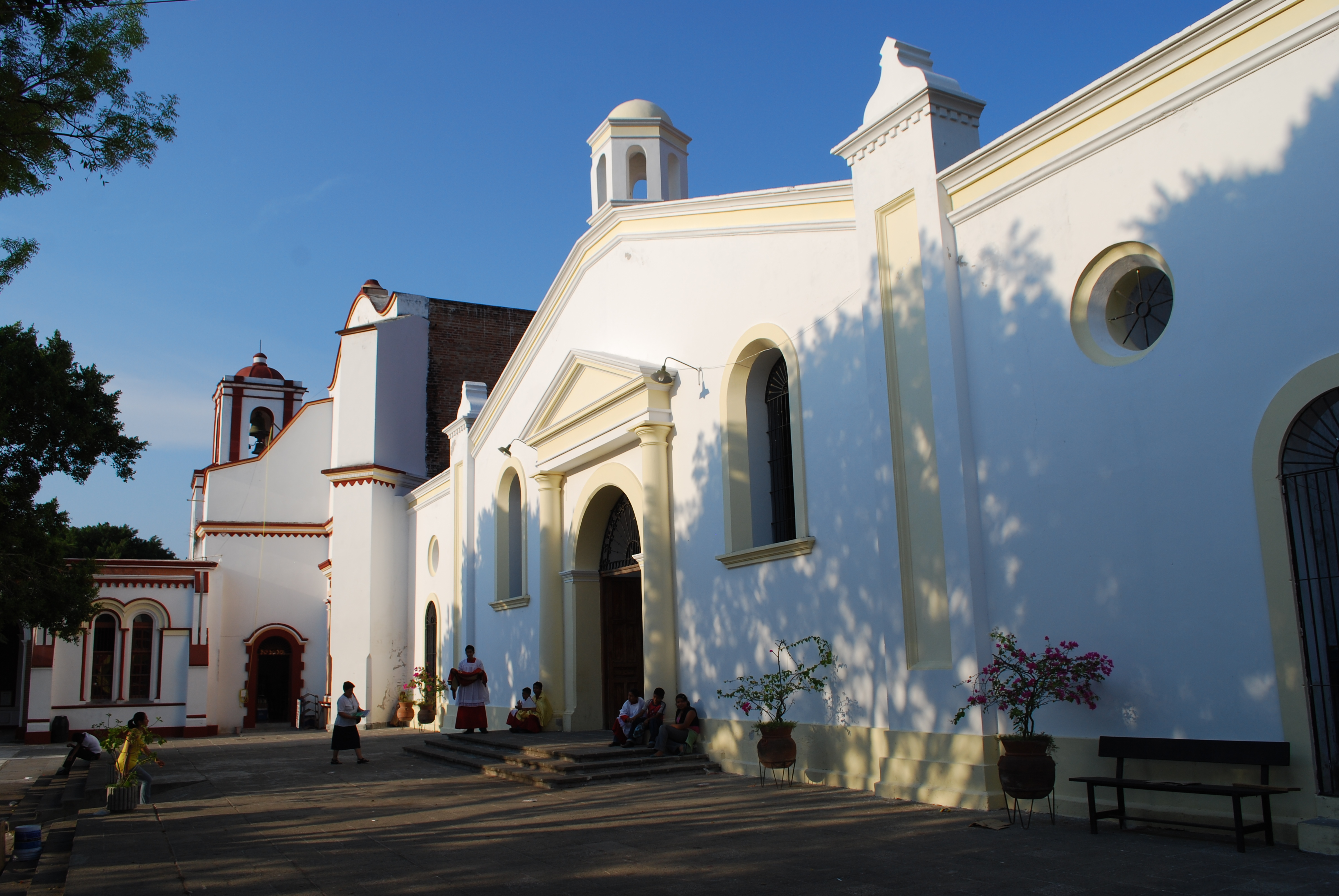 Facades of the two churches in the cathedral complex in Santo Domingo Tehuantepec, Oaxaca, Mexico